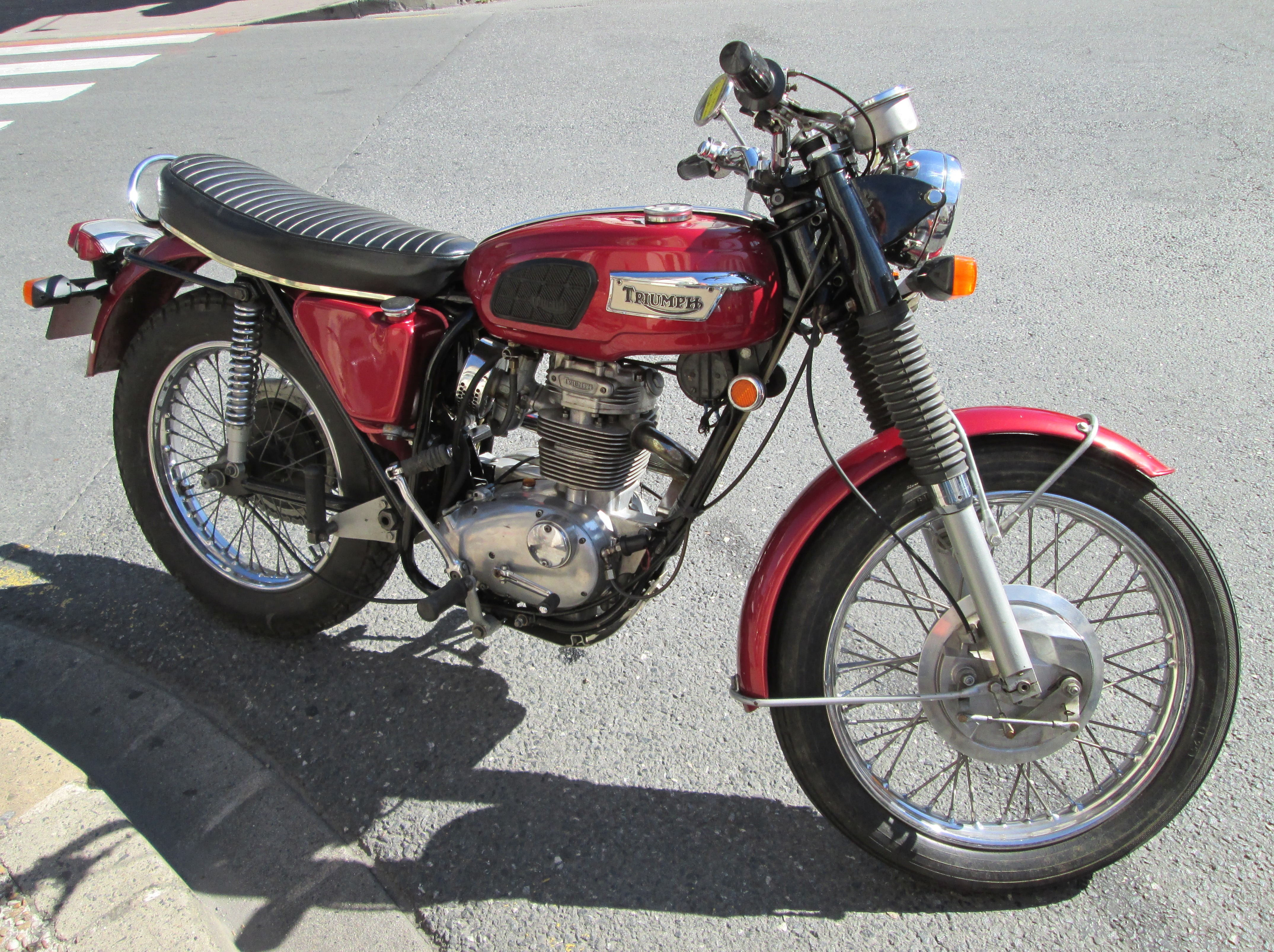 1969 Triumph TR25W Trophy, 250 cc, OHV four-stroke, single-cylinder engine.